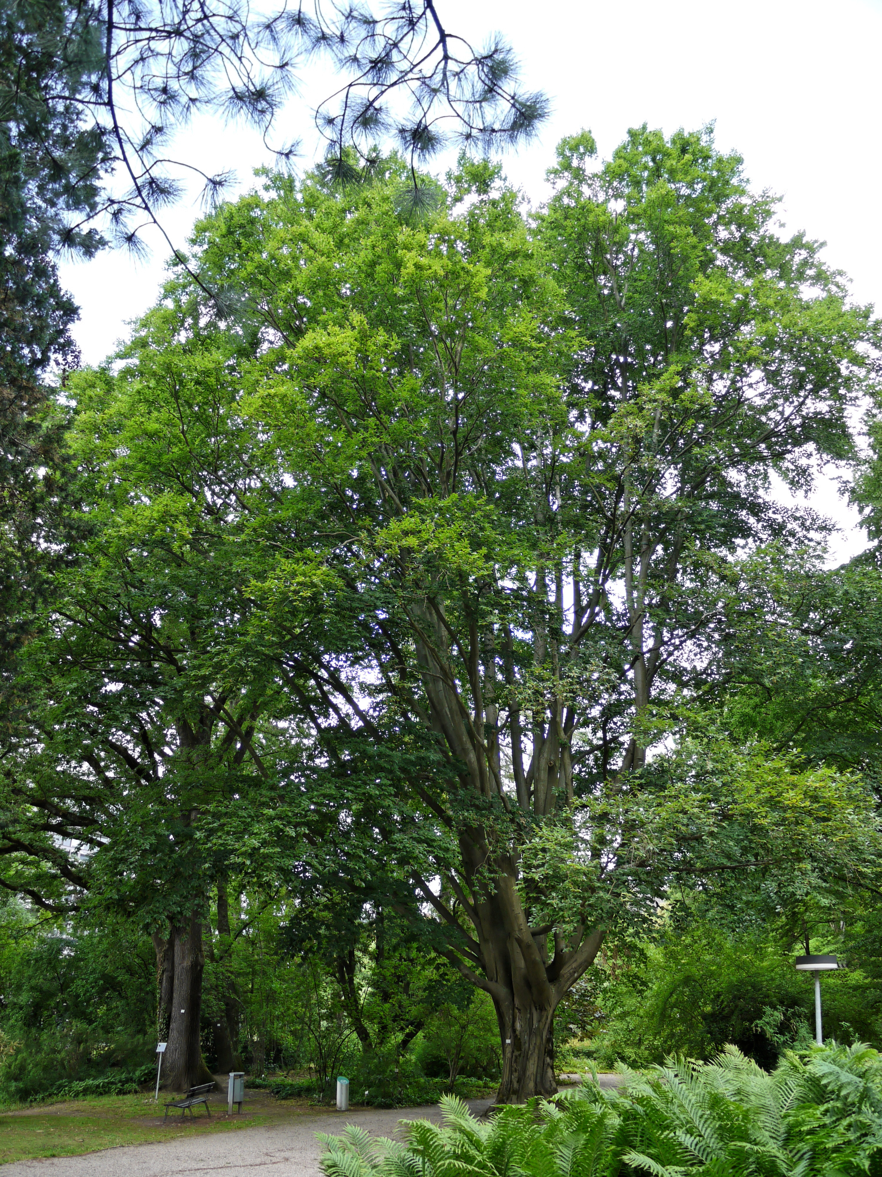 Oriental beech Fagus orientalis, at Freiburg Botanic Garden. Tree was probably planted in 1914.